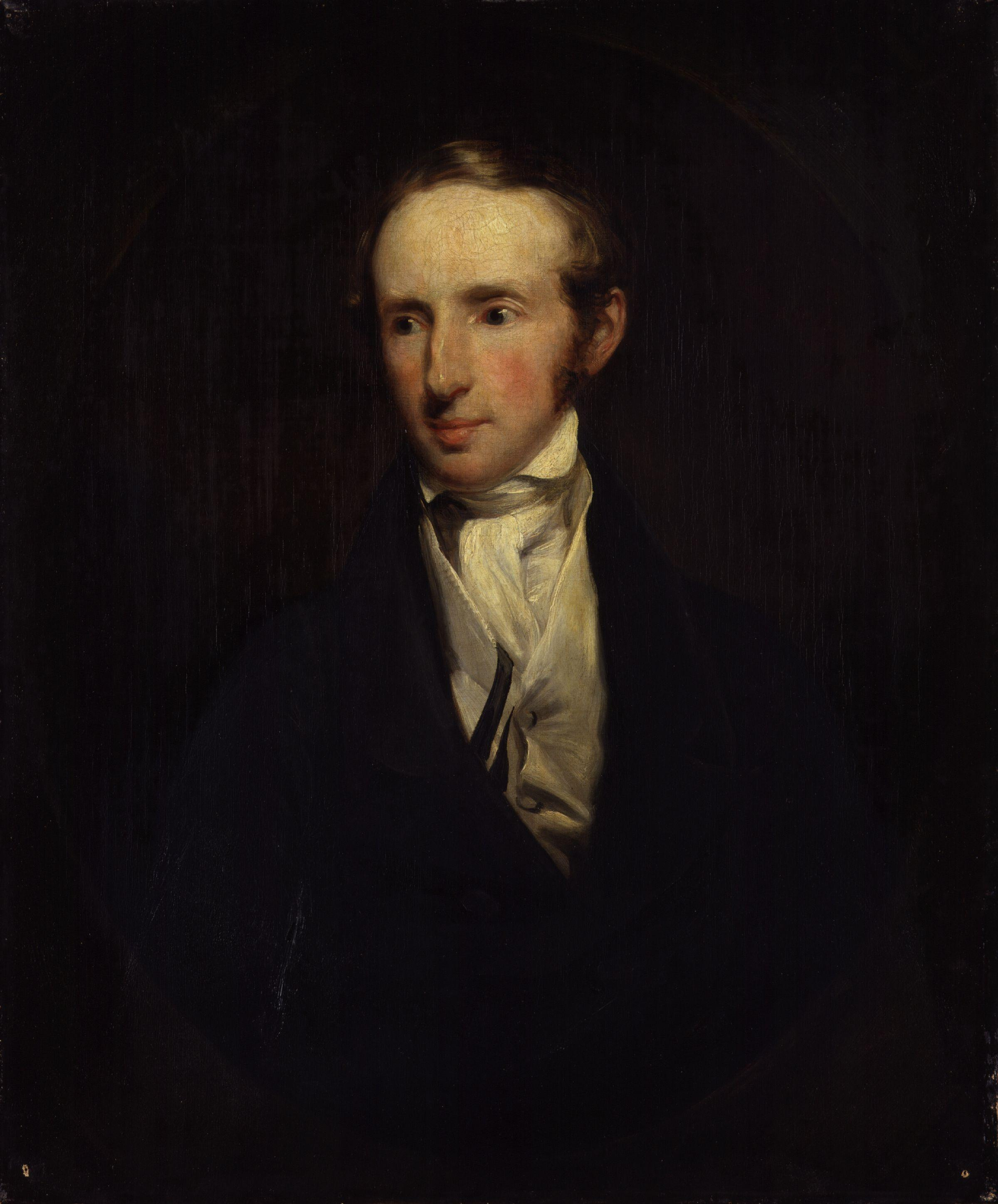 Samuel Prout, by John Jackson (died 1831). All images in this batch have been confirmed as author died before 1939 according to the official death date listed by the NPG.